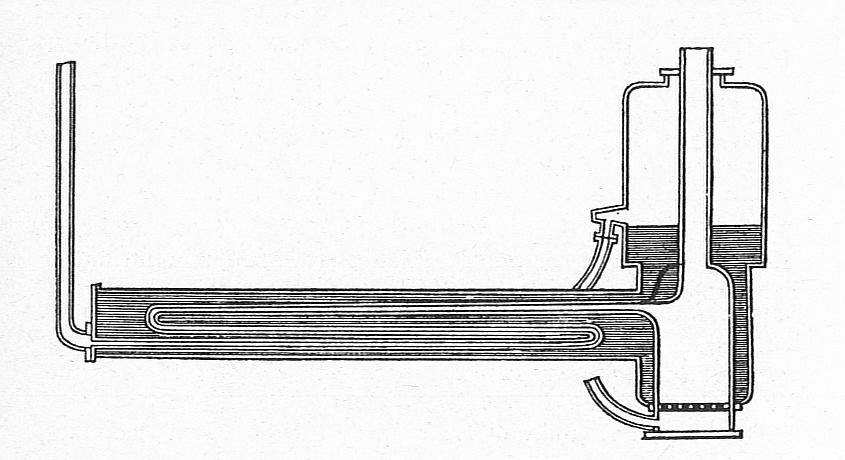 Transverse section through the boiler of 'Novelty' , showing the S-shaped firetube.